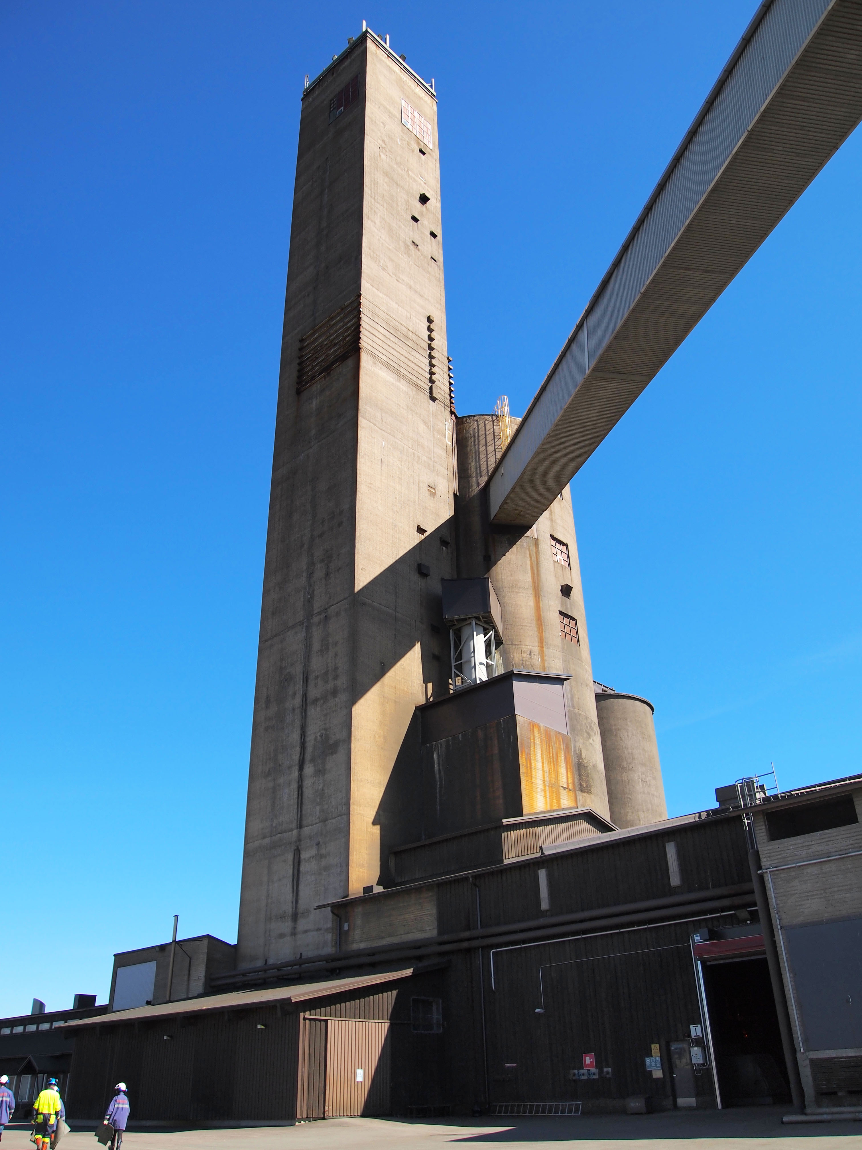 Pyhäsalmi mine.